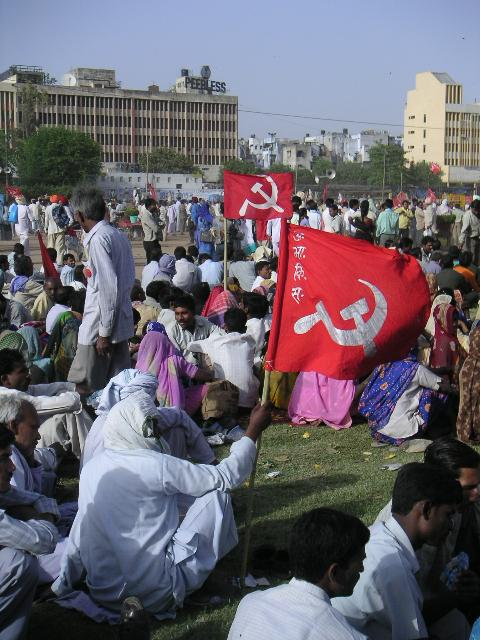 AIKS-flag held by a demonstrator at the concluding rally of the 18th CPI(M) conference, Delhi April 11, 2005.